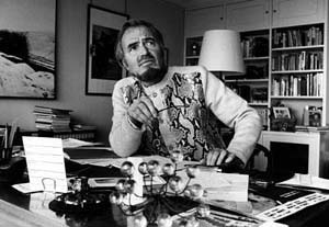 James Mason